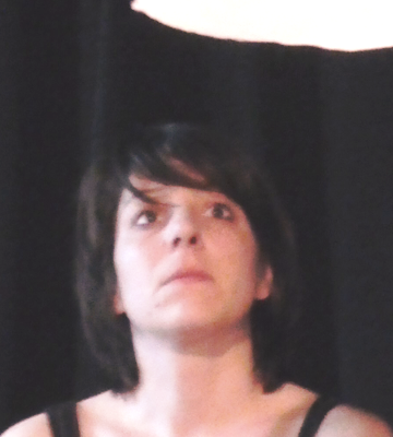 Enikő Buday Hungarian performer